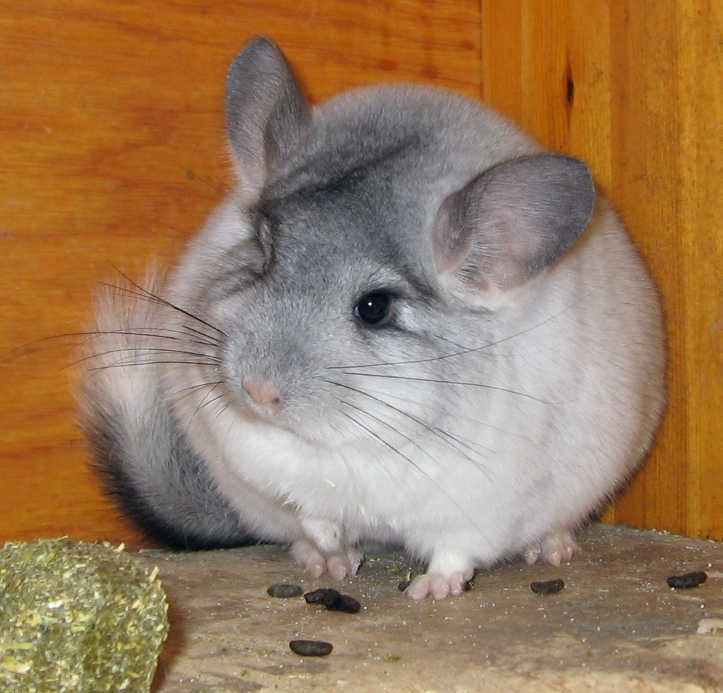 Silver Mosaic Chinchilla